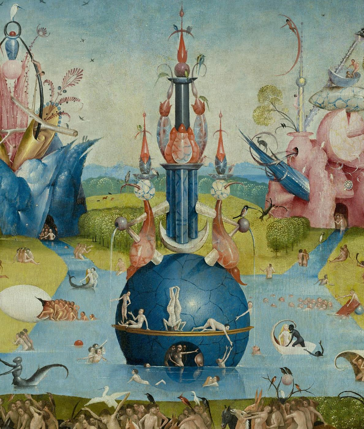 The Garden of Earthly Delights, central panel, detail.